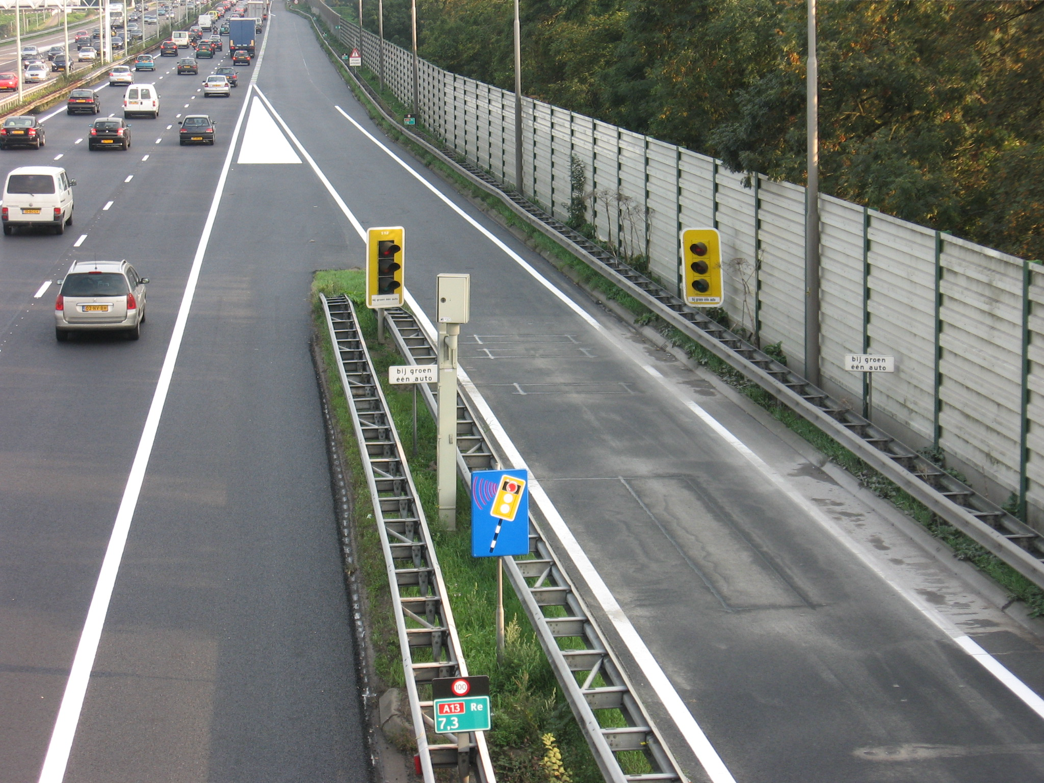 Ramp meter on the Dutch A13 motorway at exit 8 (Delft-North).